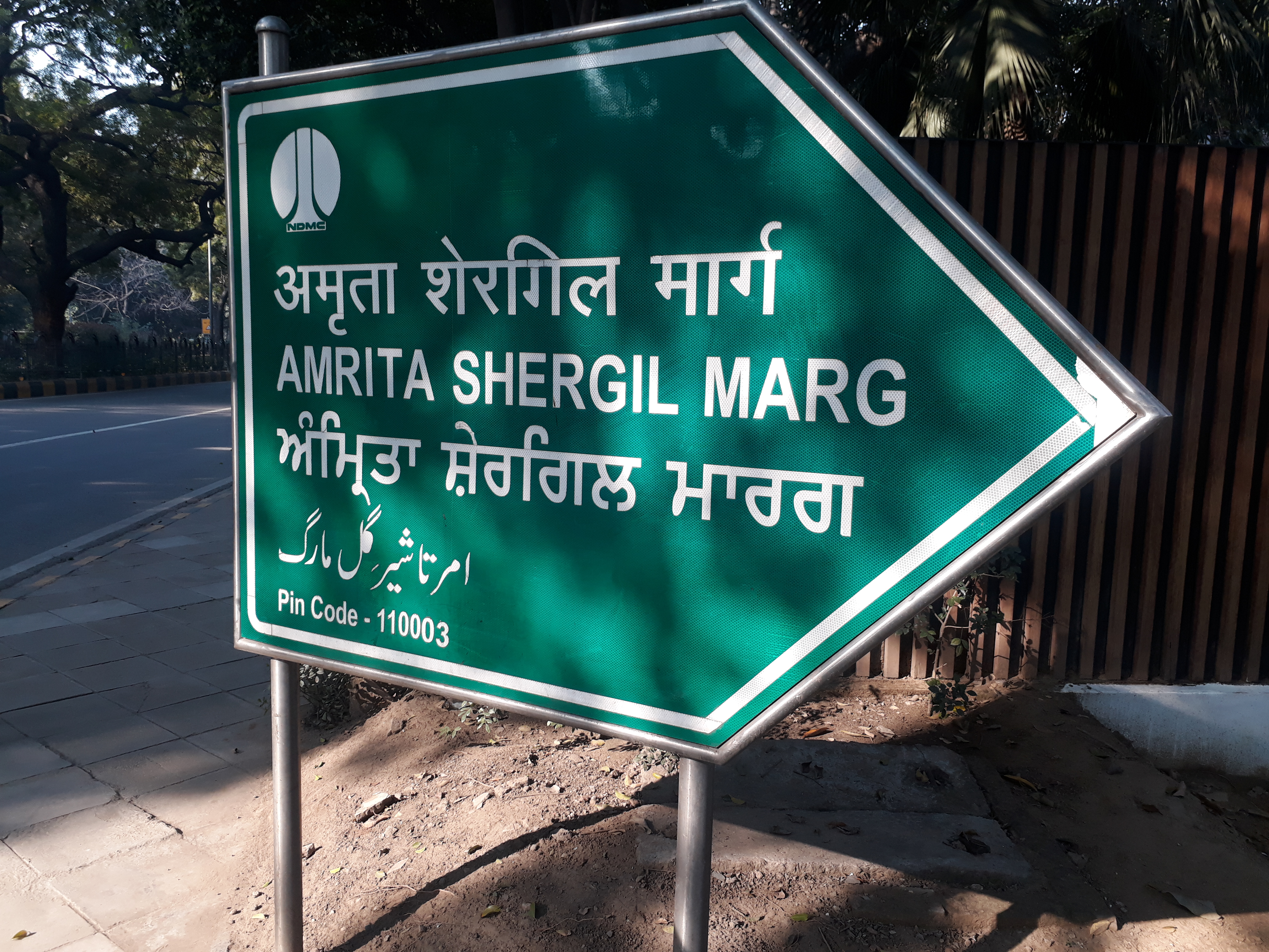 Roads and footpaths in New Delhi